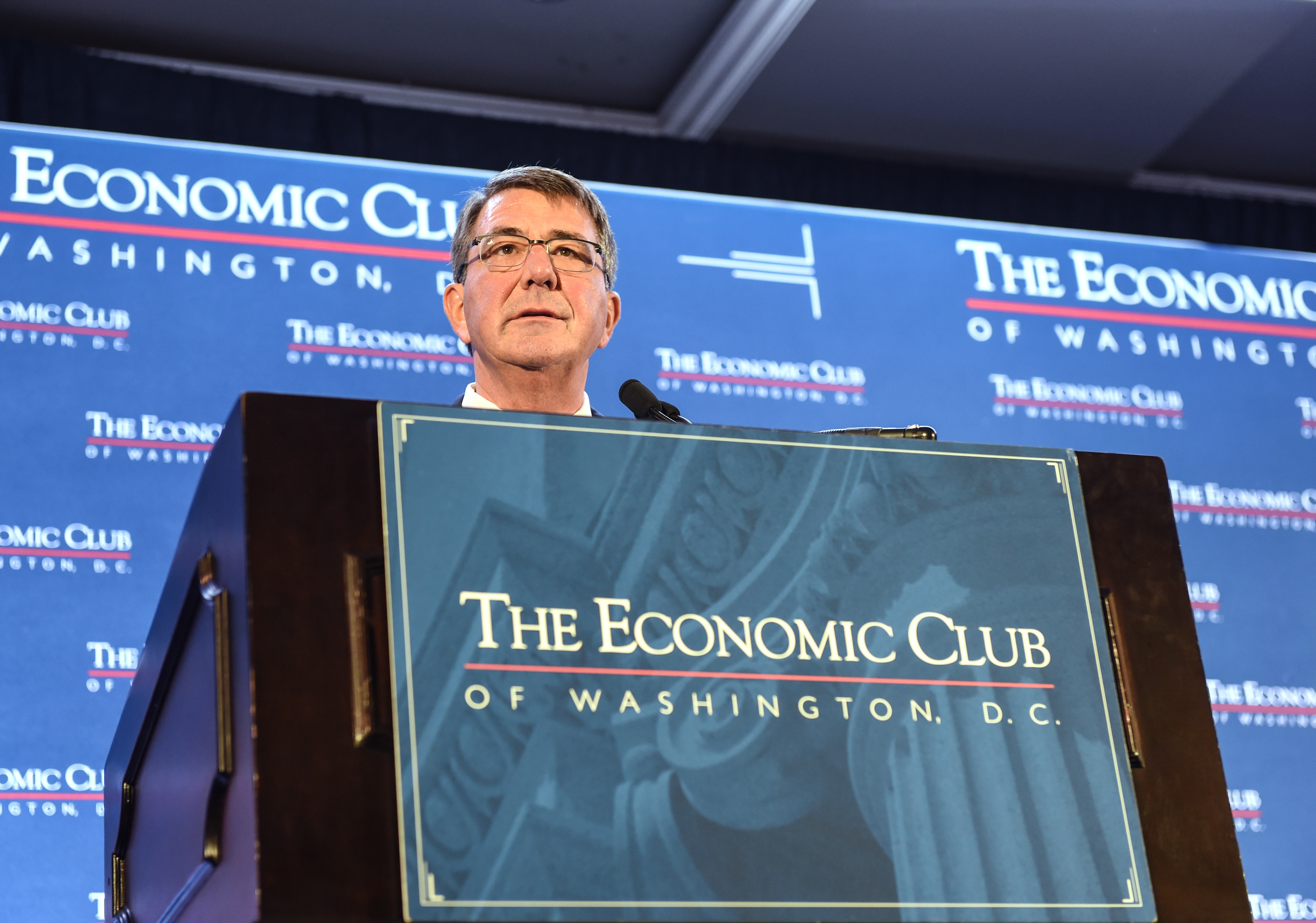 Secretary of Defense Ash Carter spoke at the Economic Club of Washington, Feb. 2, 2016. Carter discussed five evolving challenges that drive the department’s planning, including Russian aggression in Europe, the rise of China in the Asia Pacific, North Korea, Iran and the ongoing fight against terrorism, especially the Islamic State of Iraq and the Levant.(DoD photo by U.S. Army Sgt. 1st Class Clydell Kinchen) (Released)